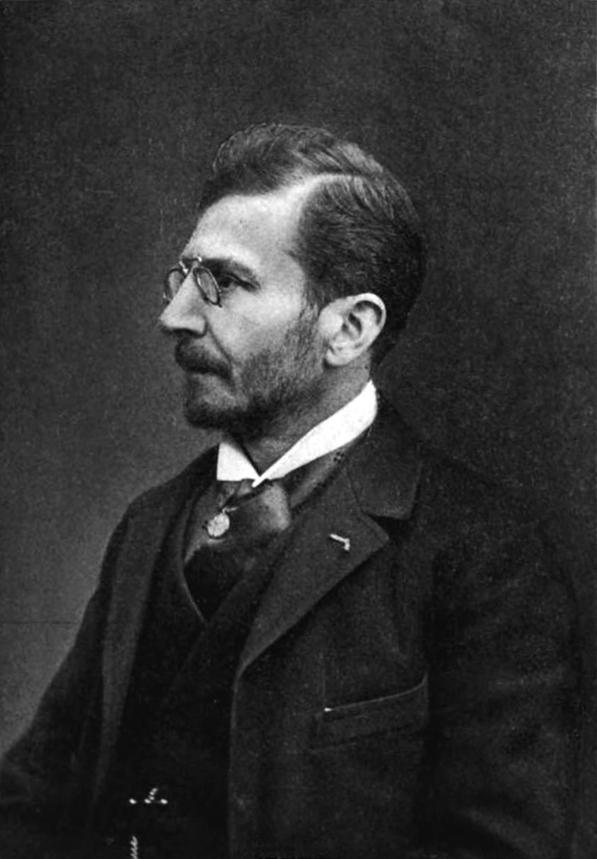 Ferdinand Brunetière (1849 – 1906), French writer and critic.